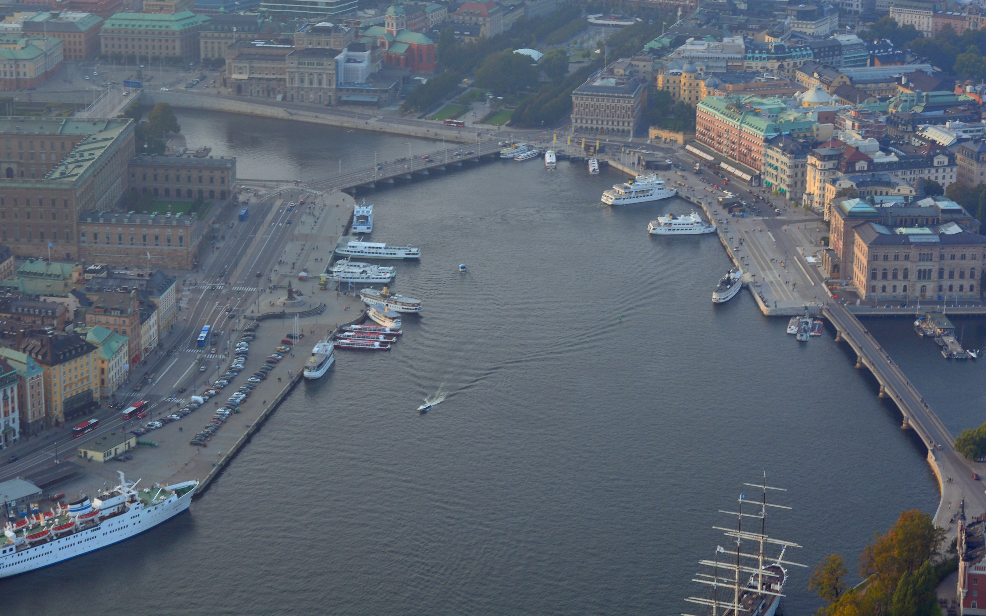 Stockholms ström